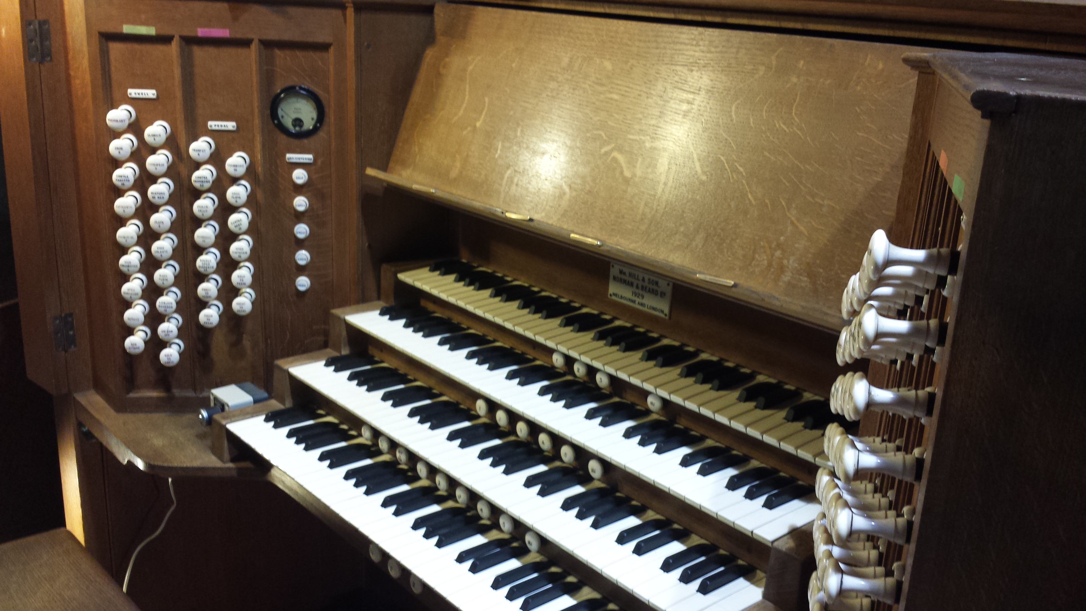 1929 Four-manual organ console